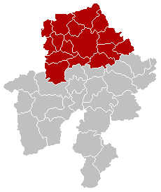 Map of Namur District in province of Namur, Belgium.